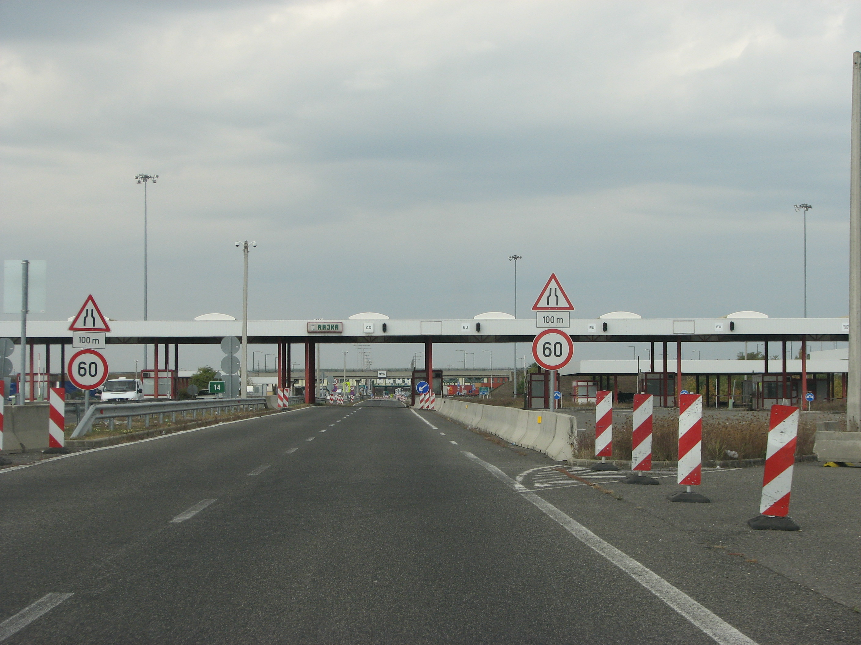 the old abandoned border crossing between Hungary and Slovakia, on the Hungarian side at Rajka.